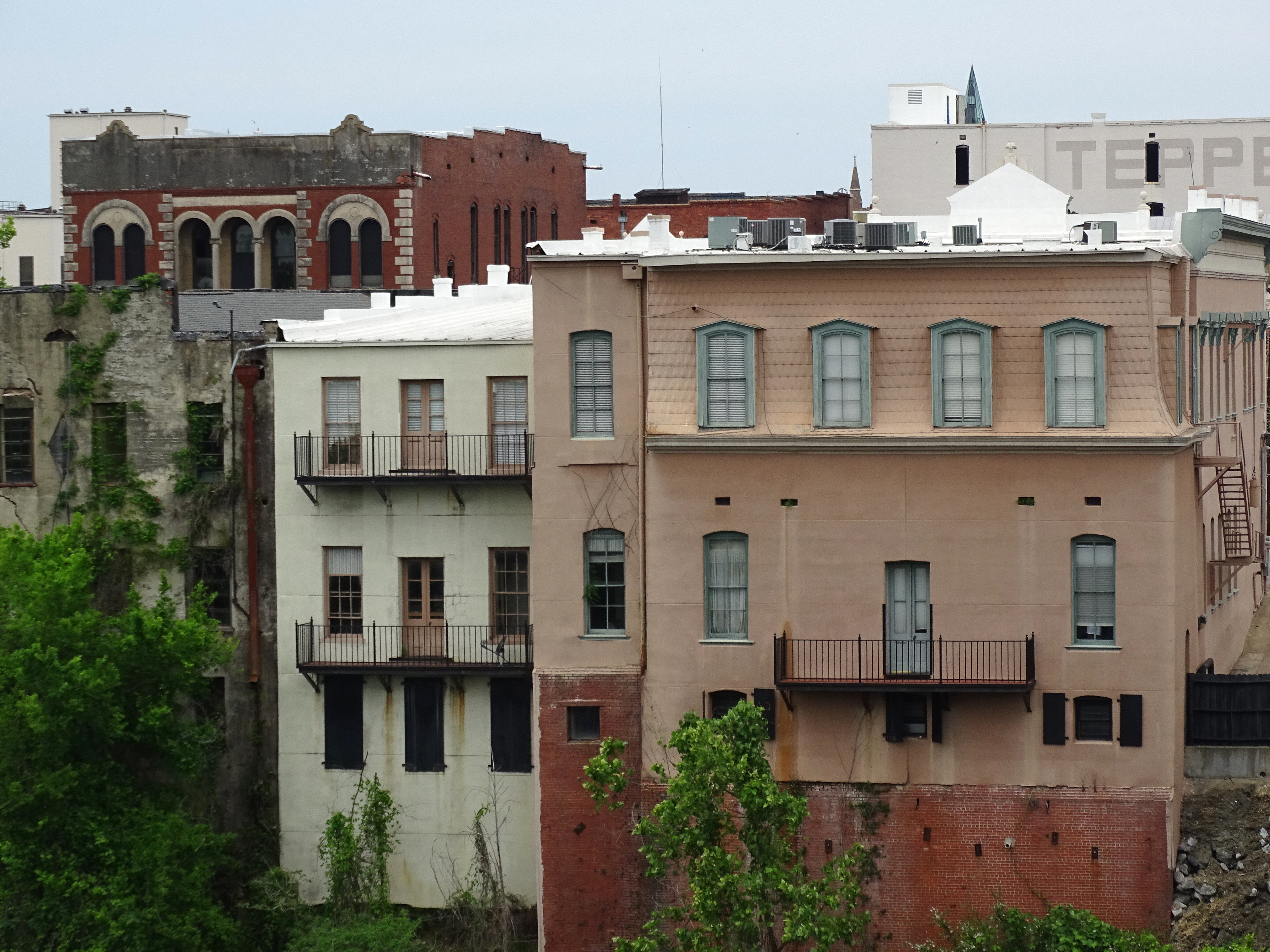 Downtown Facades - Selma - Alabama - USA